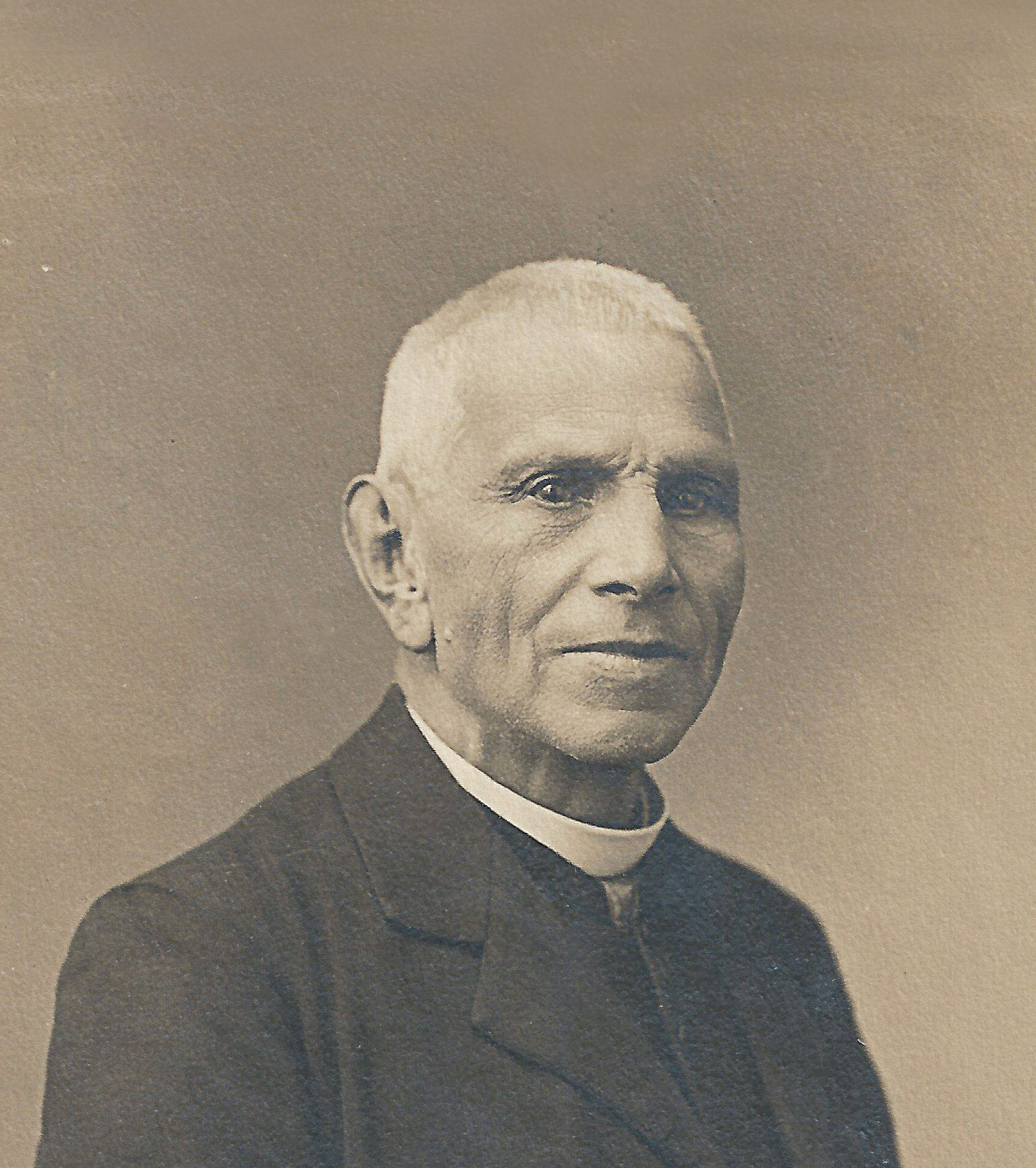 Manuel Joaquim Machado Rebelo, Abbé of Priscos (1834-1930)